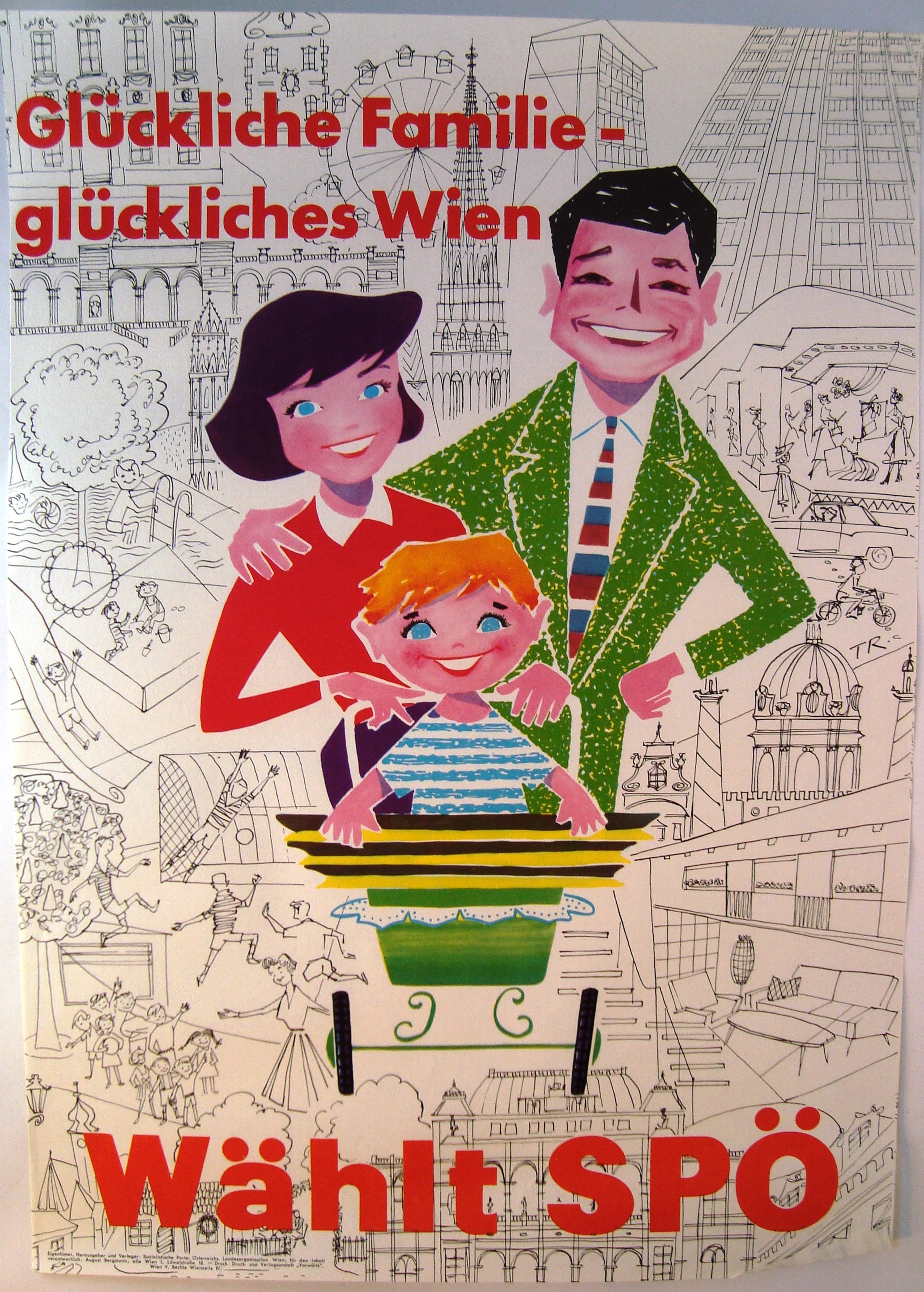 Austrian socialist party. Relation for a Election in Vienna Austria in the 1950. (Happy family, happy Vienna- vote for SPOE.